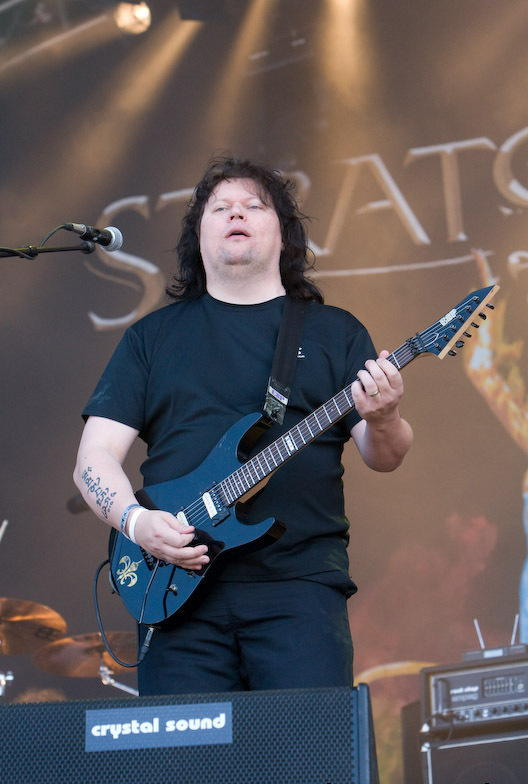 Timo Tolkki, Wacken Open Air 2007